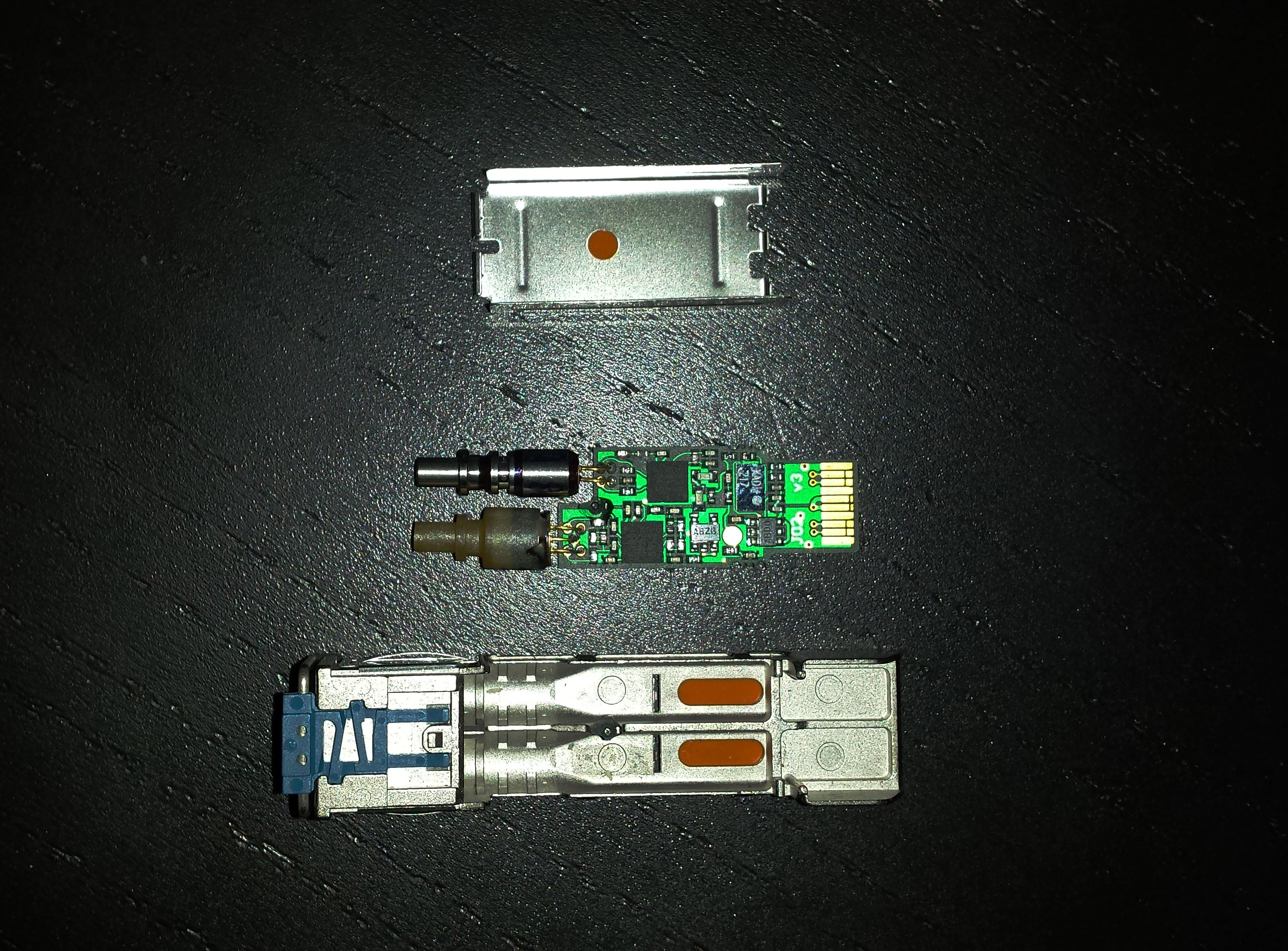 OC-3 SFP internal